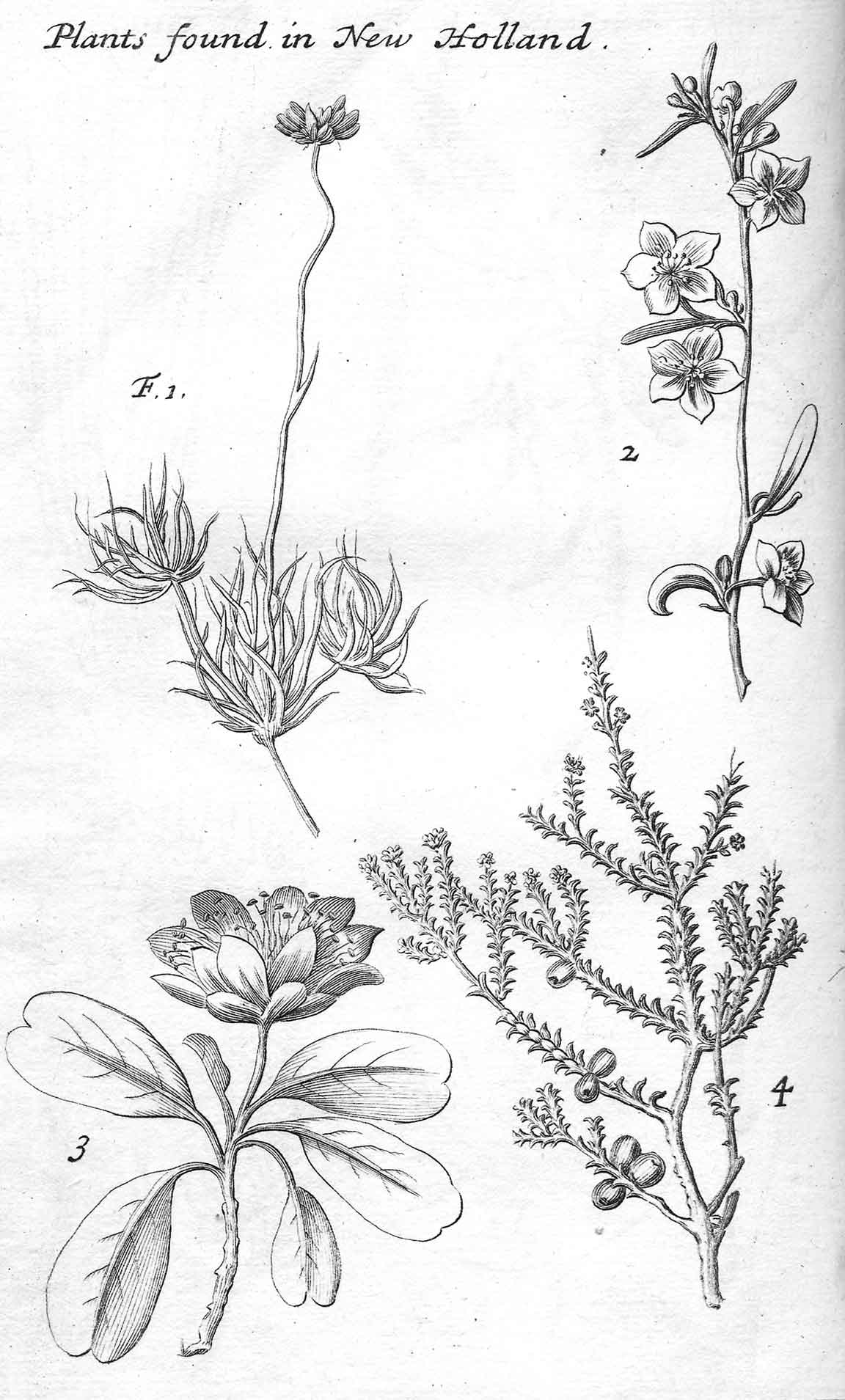 Plants found in New Holland, from Dampier’s A Voyage to New Holland